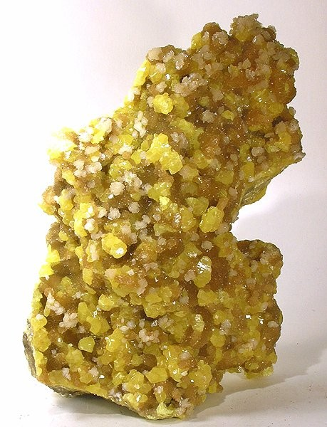 Sulphur, Celestine Locality: Machów mine, Tarnobrzeg, Podkarpackie, Poland (Locality at ) Size: 19.9 x 12.9 x 8.4 cm. A BIG and rich specimen of sulfur from a classic sulfur locality. This specimen has a LOT of sparkle to it from the faces of the bright yellow, sharp euhedral crystals sitting on the darker-colored massive sulfur. The euhedral sulfur crystals measure to about 1.2 cm. As an added bonus, you have these pretty little fans of celestine.